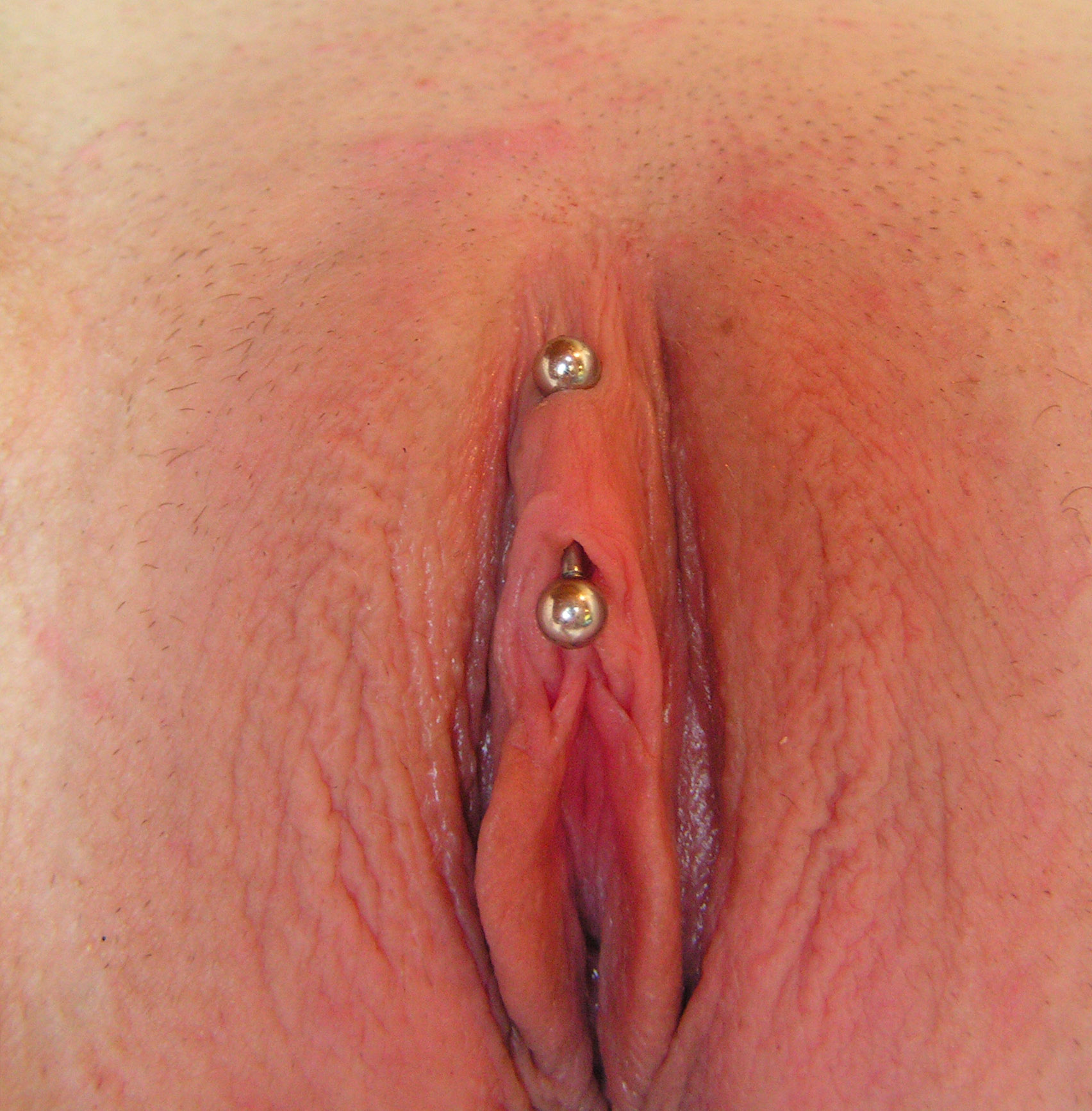 vertical hood piercing photo